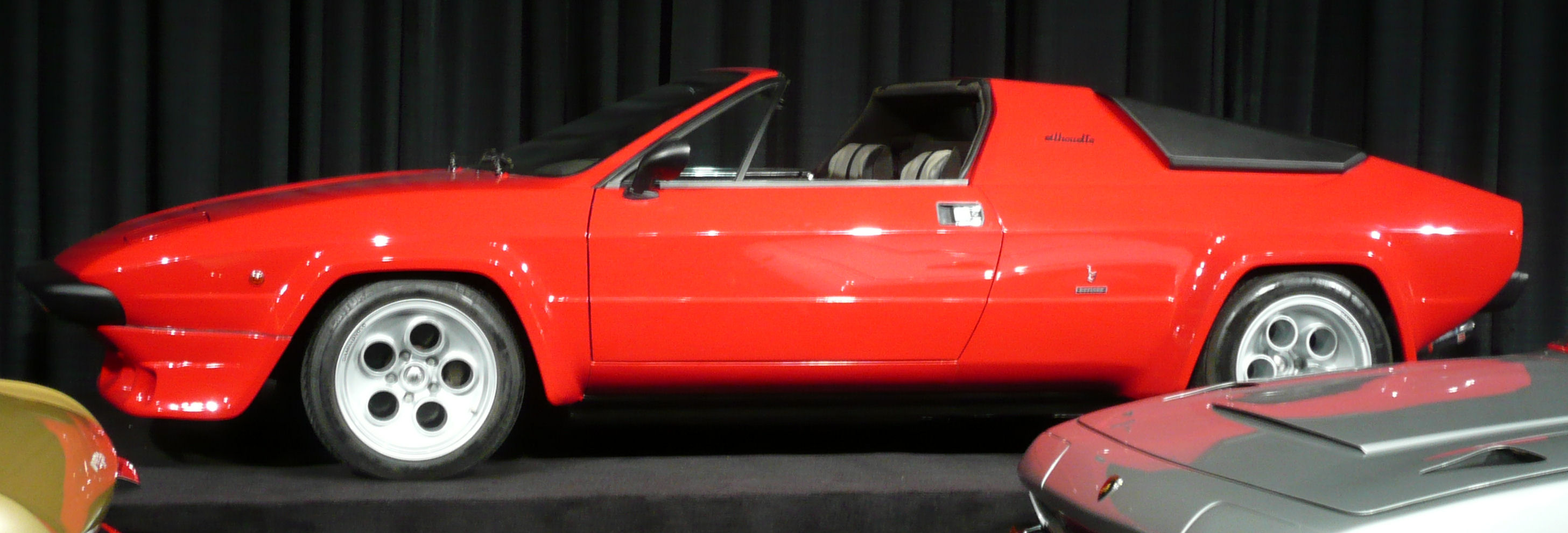 Lamborghini Silhouette at Toronto Autoshow 2008, Canada